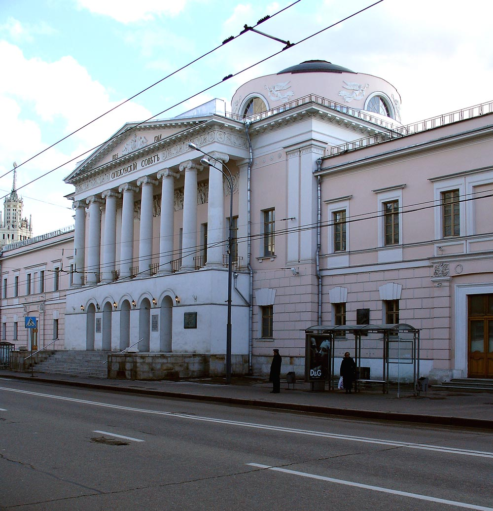 Board of Trustees Building, Solyanka Street, Moscow by Domenico Gilardi and Afanasy Grigoriev